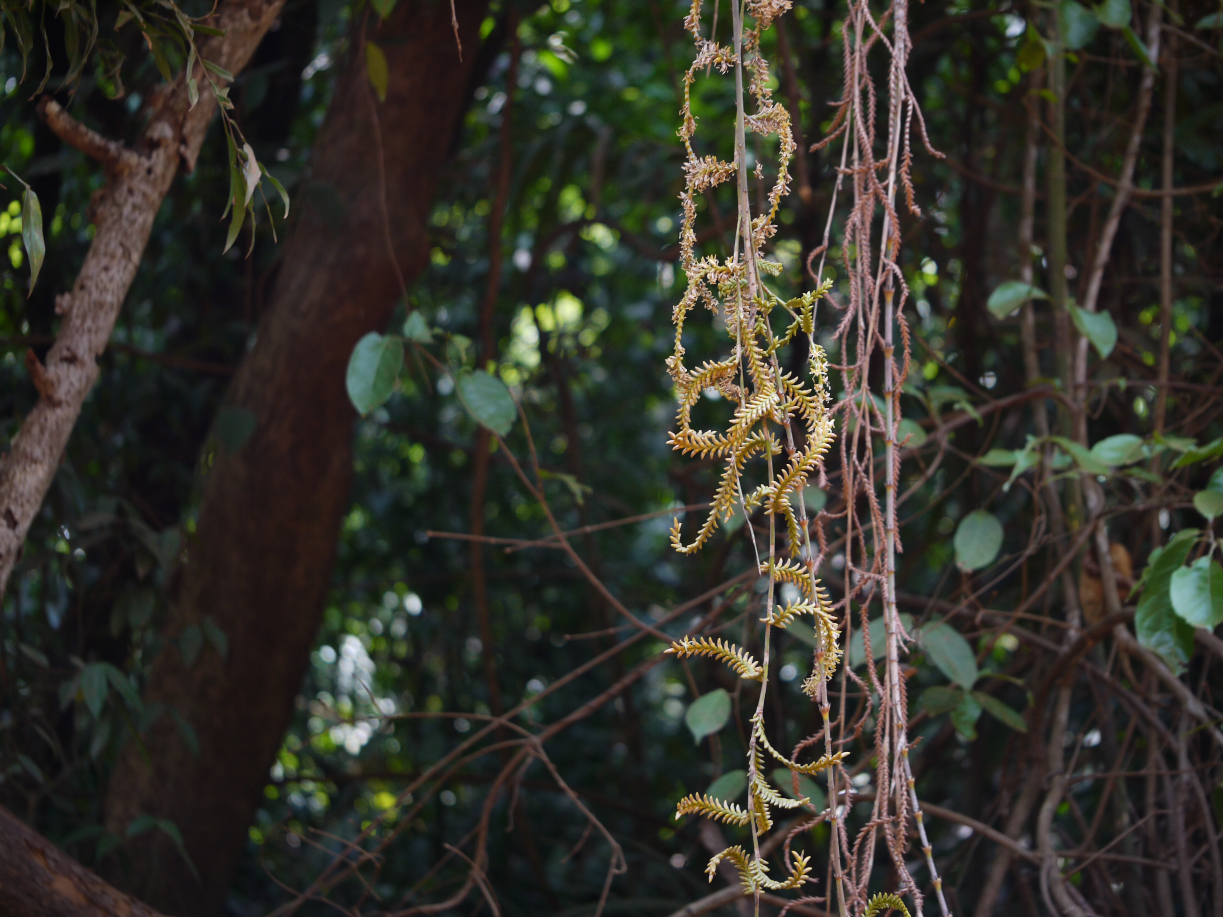 Arecaceae (palm family) » Calamus thwaitesii KAL-uh-mus -- from the Greek kalamos, meaning reed thwaitesii -- named for Dr G. H. K. Thwaites, British botanist commonly known as: rattan cane • Kannada: ಹಂಡಿಬೆತ್ತ handibetta • Konkani: वेत veta • Malayalam: ആനച്ചൂരല്‍ aanaccuural, തടിയന്‍ ചൂരല്‍ thatiyan cuural, വലിയ ചൂരല്‍ valiya cuural • Marathi: वेत veta Endemic to: s Western Ghats (of India), Sri Lanka References: PalmWeb • Dandeli Wildlife